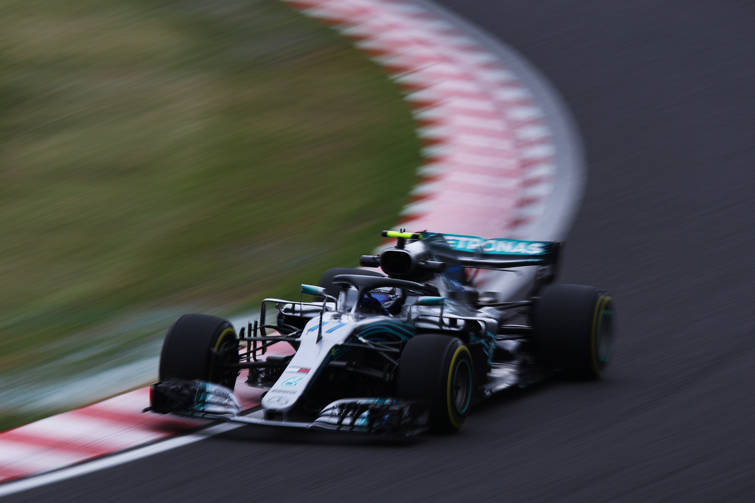 Valtteri Bottas driving his Mercedes F1 W09 EQ Power+ in Suzuka during FP2 (5 October 2018).